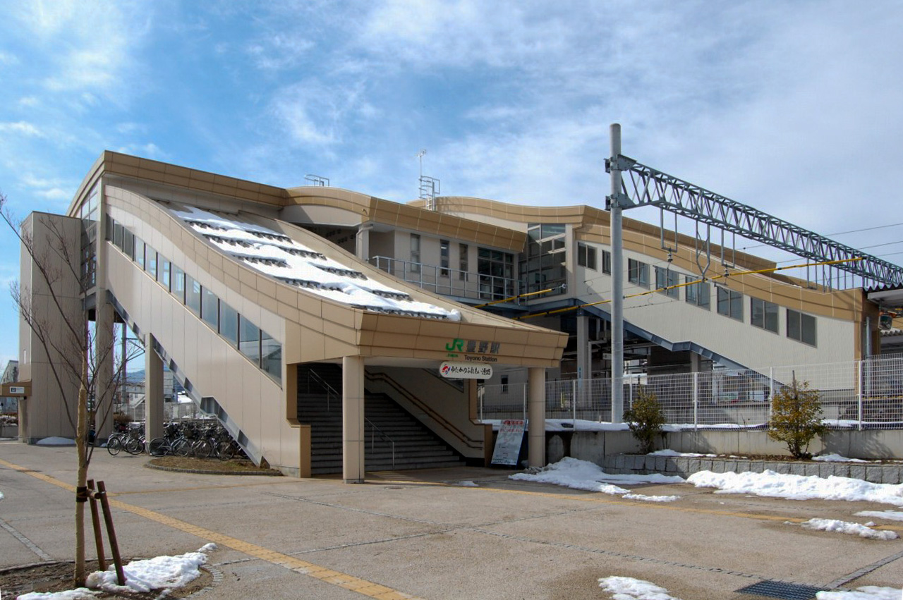 The south side of Toyono Station in Iiyama, Nagano Prefecture, Japan